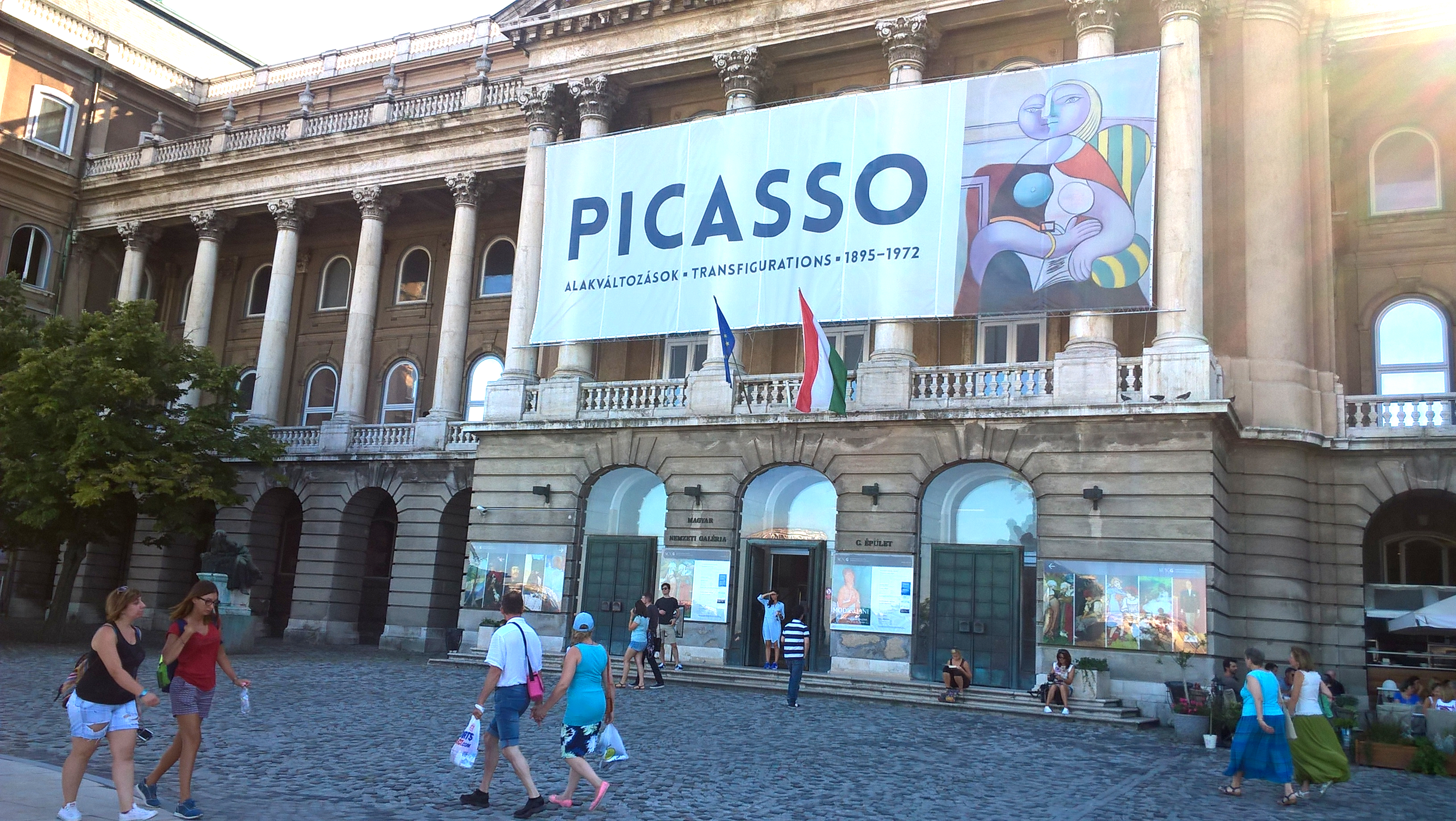 PICASSO – TRANSFIGURATIONS, 1895-1972 22 April 2016 - 28 August 2016 On its last weekend the closing hour of the PICASSO-exhibition is changed: Fri-Sun, 26-28 August